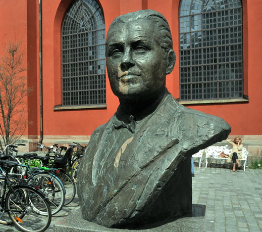 Jussi (Johan Jonatan) Björling, born feb 5, 1911 dead sep 9 1960. One of the leading operatic tenor singers of the 20th Century, Björling was well known to all the big and famous opera houses in the world.